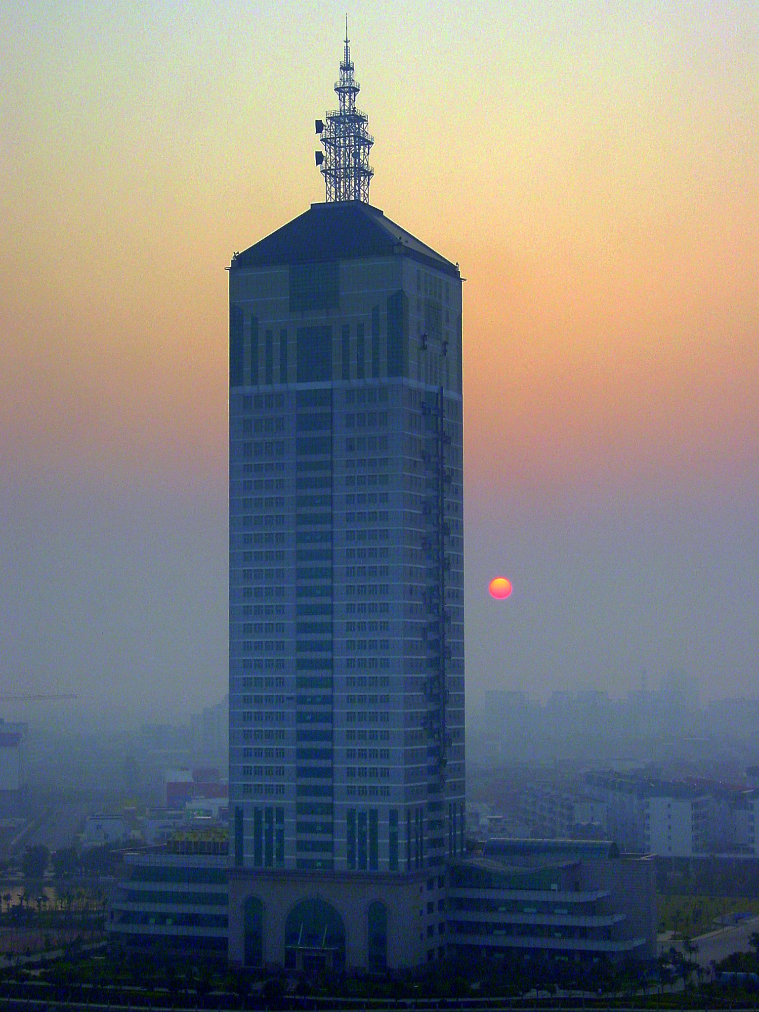 Daybreak view from the Lakeview Hotel window at in Nanchang, China, Jiangxi Province.